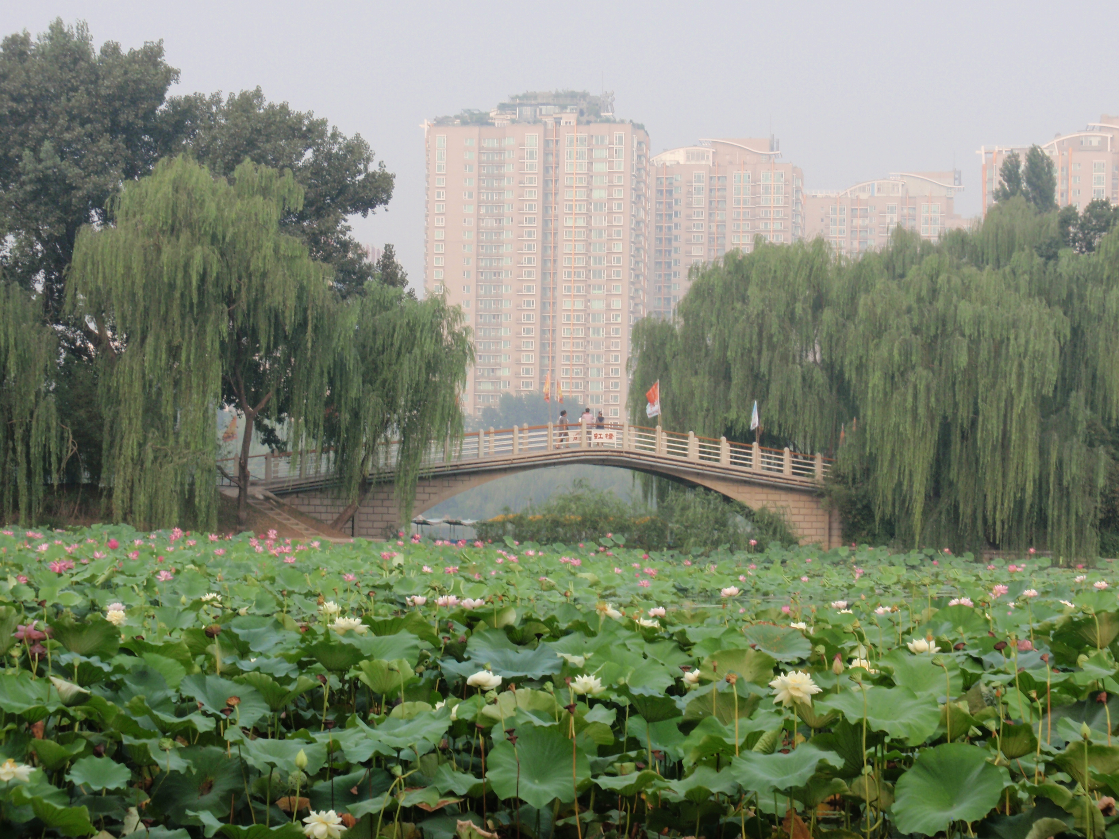 The main lake in Zhizuyuan Park in Beijing, host of many lotus flowers